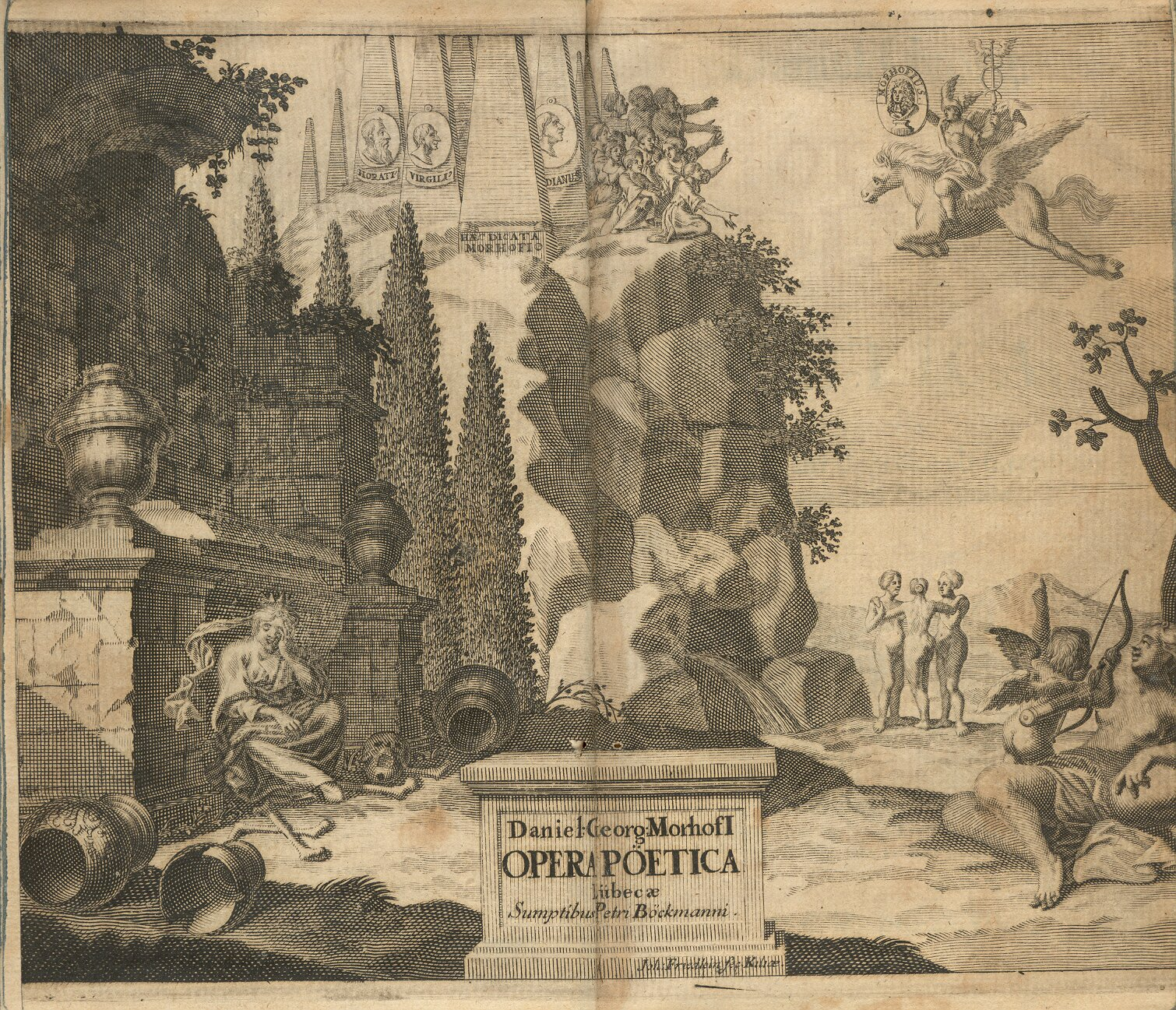 title engraving of Daniel Georg Morhof: Opera poetica, Lübeck 1697 (Digital version provuided by CAMENA)